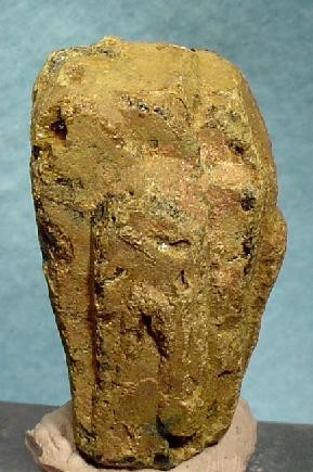 Aeschynite-(Y) Locality: Iveland, Aust-Agder, Norway (Locality at ) Size: 4.1 x 2.2 x 2.2 cm. A fine, well-terminated, complete all-around aeschynite-(Y) crystal from Iveland, Norway. Aeschynite is a rare-earth oxide and this sharp old-timer is a giant for the species. Ex. George Elling Collection.